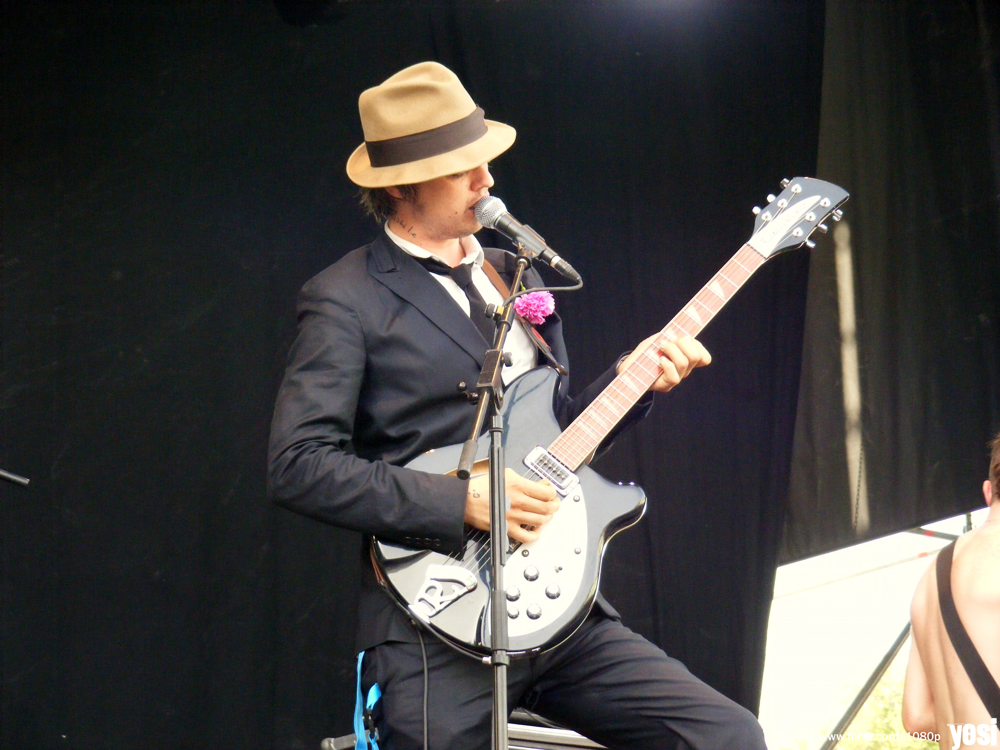 Baby Shambles Pete Doherty at the Saturday Night Fiber in Madrid.